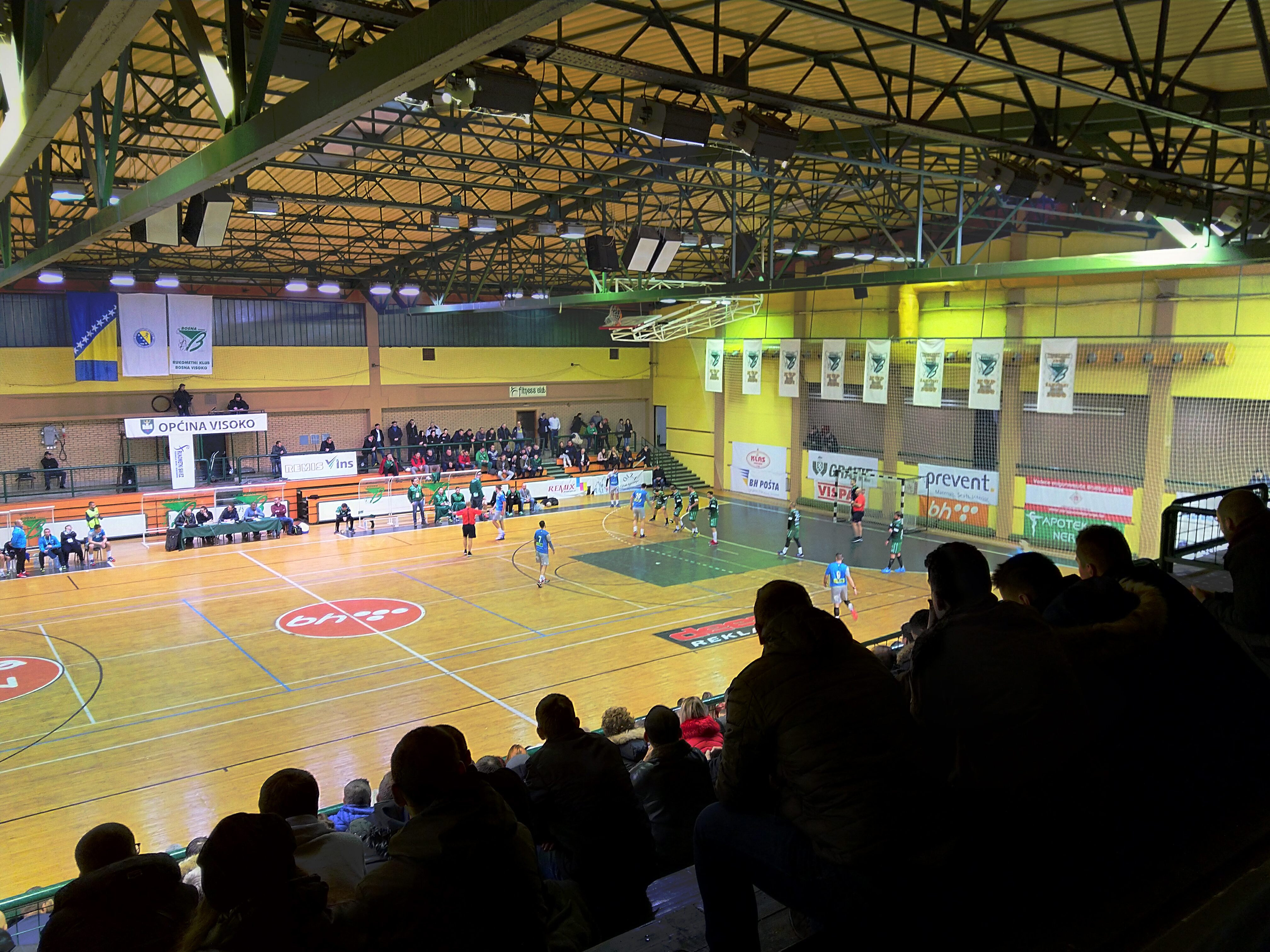 Handball Club Bosna from Visoko playing at their home Mladost hall